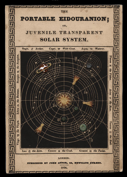 The portable Eidouranion: or juvenile transparent Solar System Material: paper Language: English Country of Origin: U.K. Earliest/Single Date: 1824 publisher John Offor Place: London